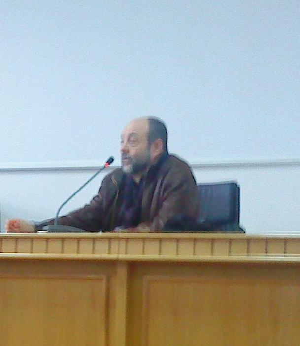 Tompa Gábor